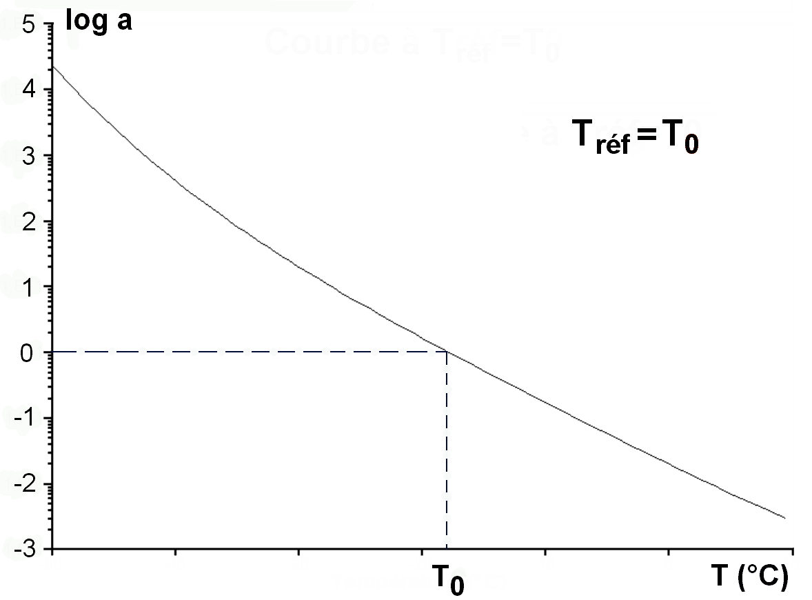 Shift factor a (T0, T) of a viscoelastic material (polymer) against all test temperatures using a reference temperature T0.